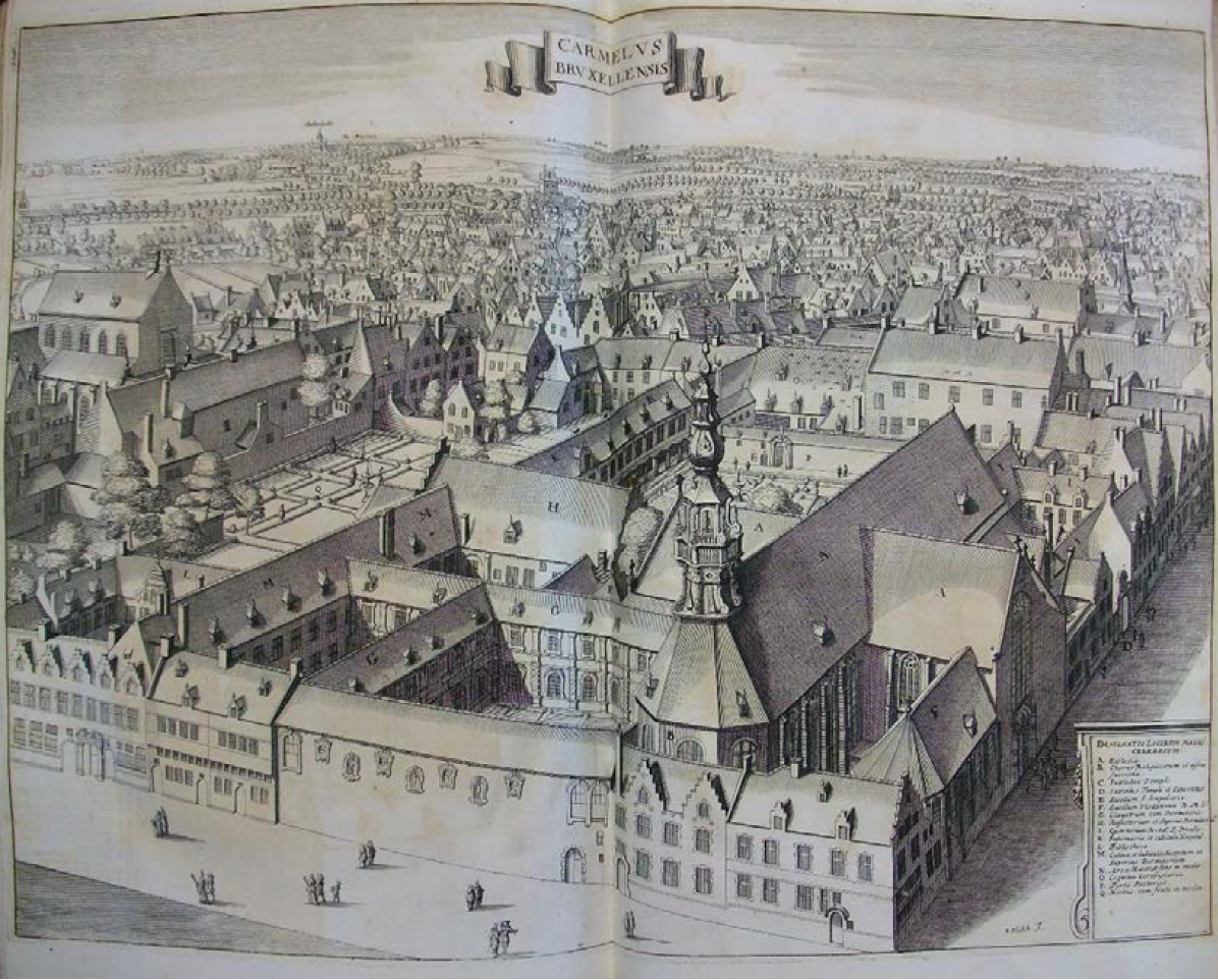 The Brussels convent of the Calced Carmelites, from Sanderus. Etching by Reinier Blockhuizen after Lucas II Vorsterman after Jacob van Werden.